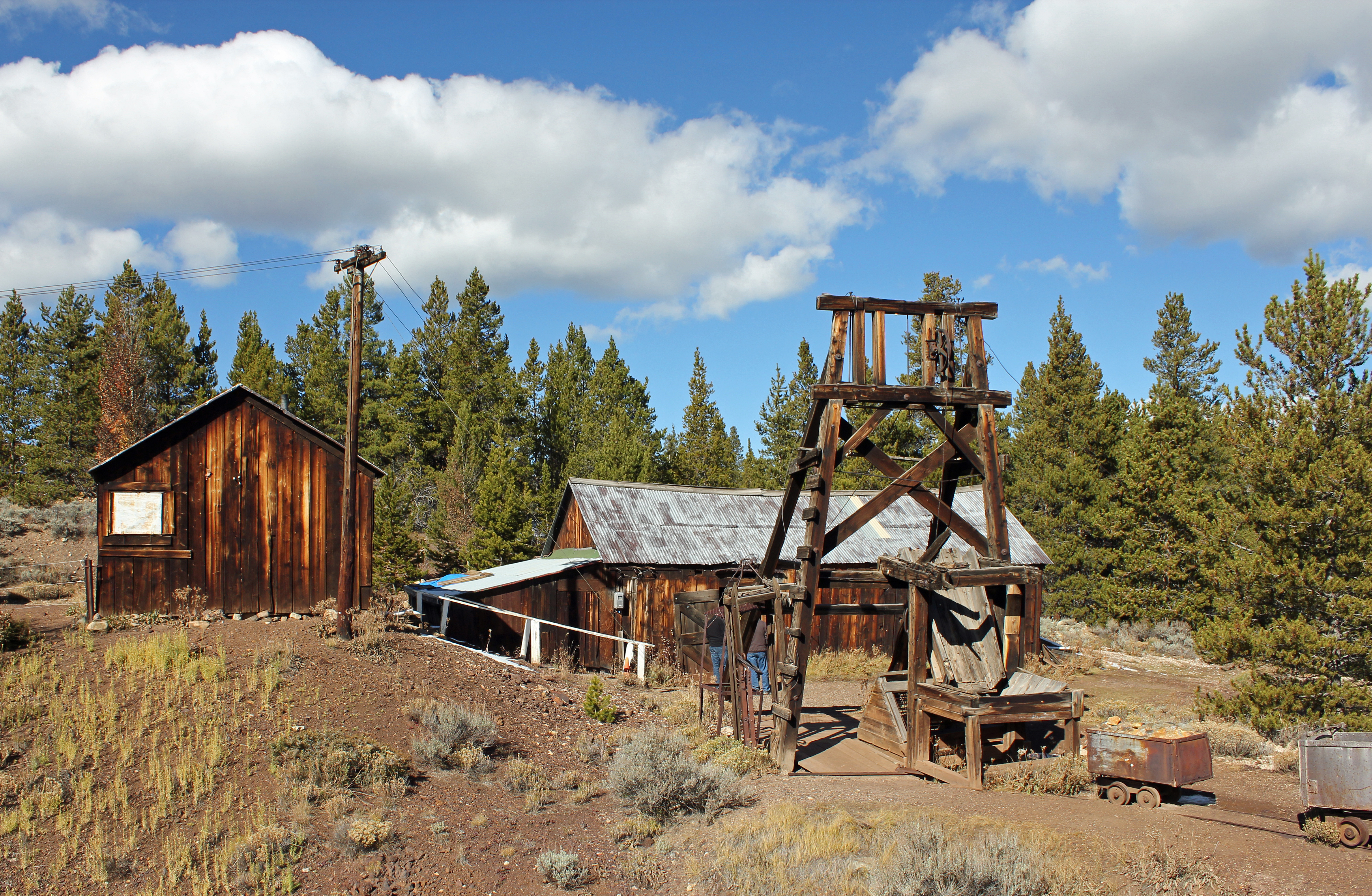 The Matchless Mine in Leadville, Colorado. The property is listed on the National Register of Historic Places.